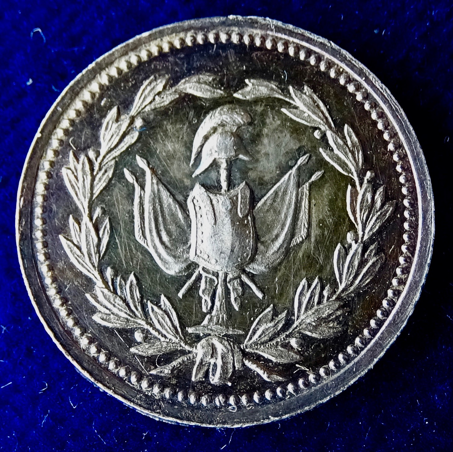 1815 Austrian Silver Medal Battle of San Germano, Italy in the Napoleonic Wars. Medallion d. = 19 mm. 2.10g Ag The Battle of San Germano (or the Battle of Mignano) was the final battle in the Neapolitan War between an Austrian force commanded by Laval Nugent von Westmeath and the King of Naples, Joachim Murat. The battle started on 15 May 1815 and ended on 17 May, after the remaining Neapolitan force was routed at Mignano. Laval Nugent von Westmeath, Count, Austrian Field Marshal, 1777 Ballynacor, County Westmeath, Ireland - 1862 Karlovac, Croatia, Austrian Empire Helmet shield and 4 flags within springs / 7 lines: "GEFECHT BEI ST. GERMANO DURCH F· M· L· G· NUGENT AM 16. MAI 1815." Julius 3314; Wurzbach 6894. Condition: EXTREMELY FINE+, light old patina.